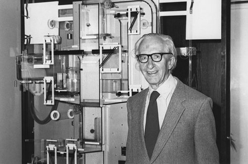 Professor James Meade with Phillips Machine/MONIAC computer, 1996